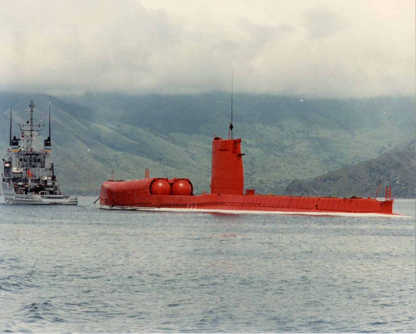 The USNS Catawba (ATF-168) is seen towing the Ex-Grayback (LPSS-574) out of Subic Bay on 13 Aug 1986. The Grayback was painted orange for an impending sink excise.